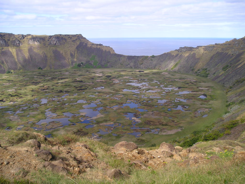 Rano Kau volcano